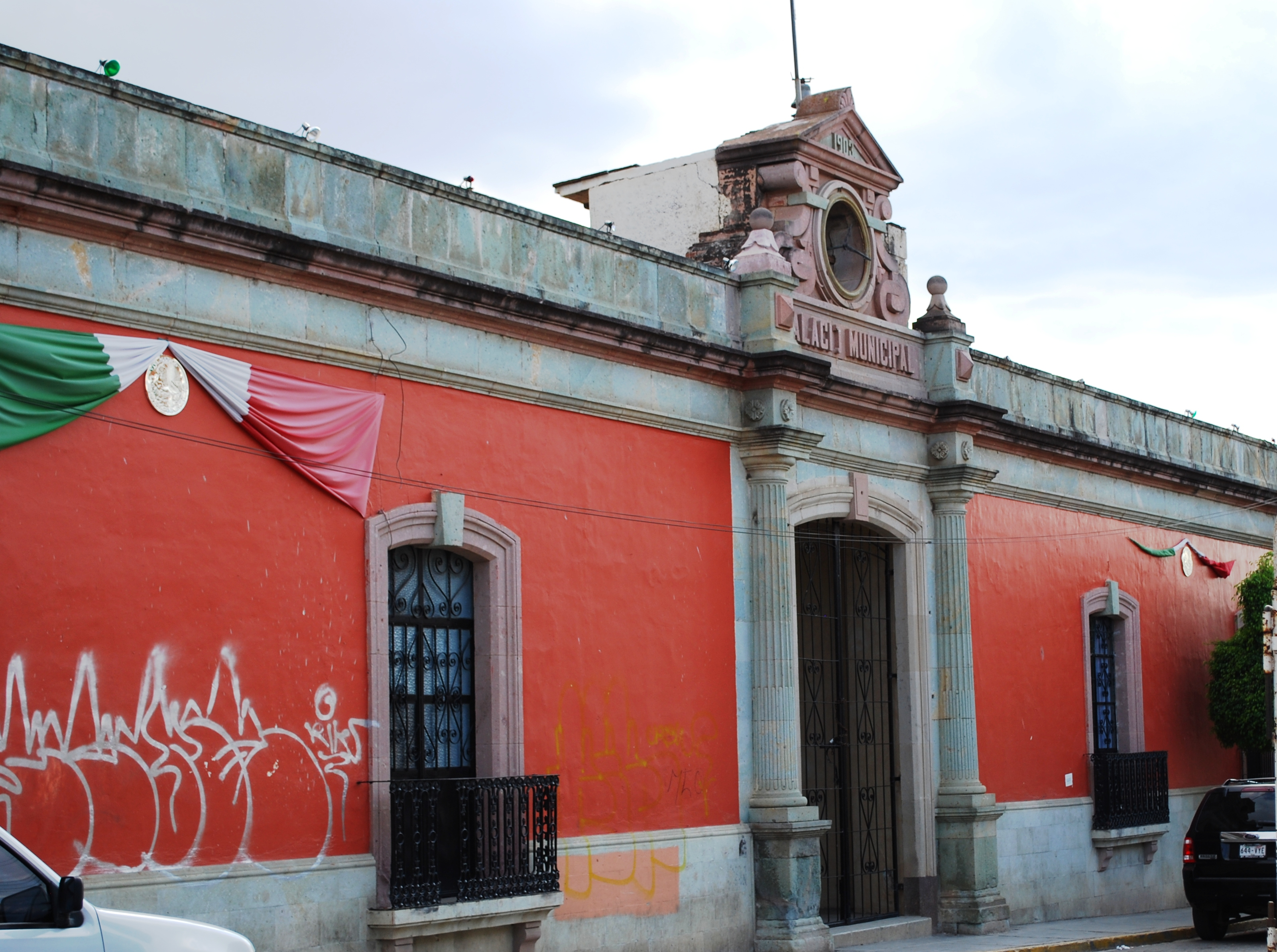 Municipal palace of Tlacolula, Oaxaca, Mexico